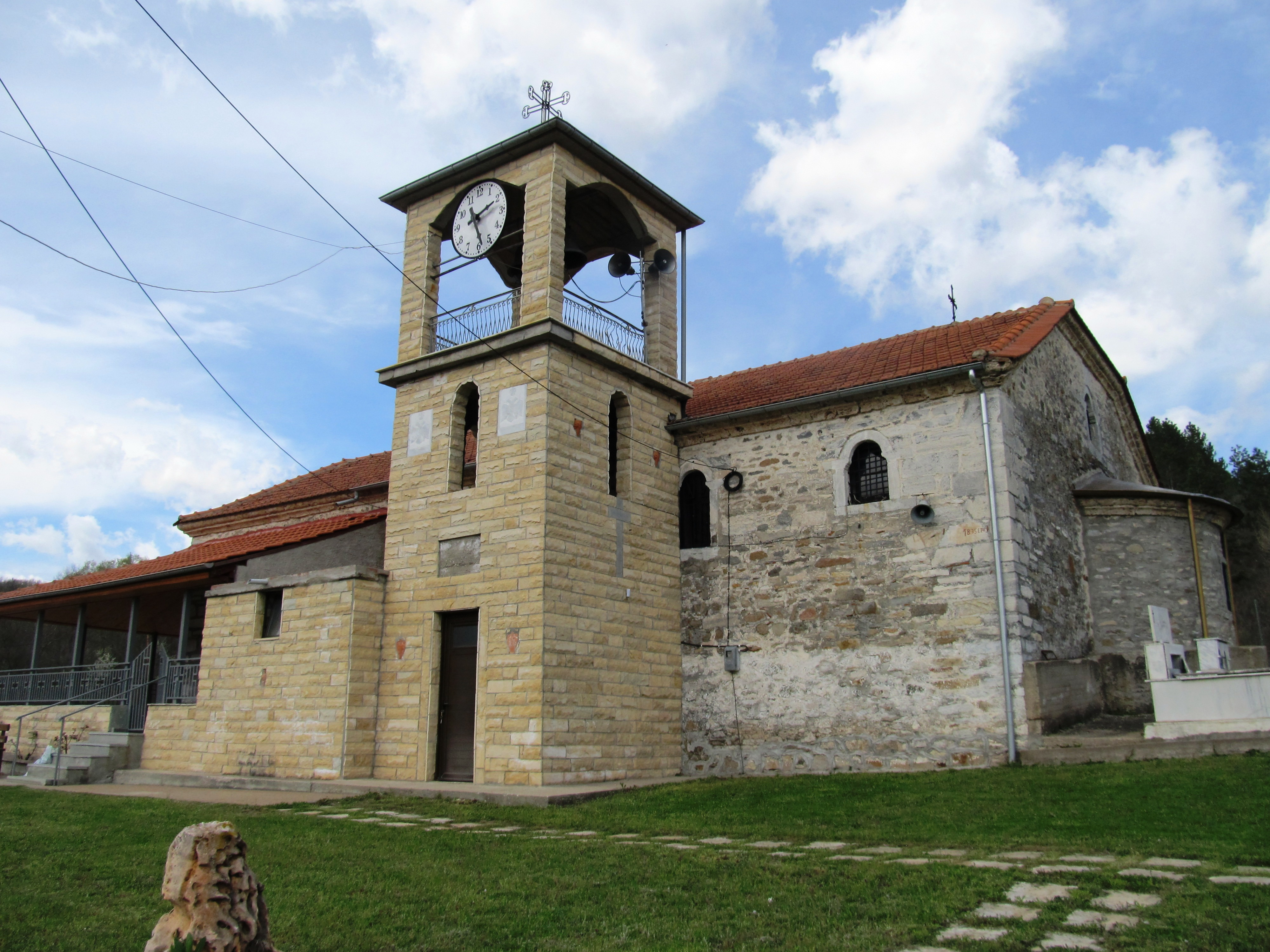 Church of Sts. Theodore Tyron & Theodore Stratelates and St. John the Apostle (called St. Theodore) in Kato Vrontou (Dolno Brodi) village, Greece